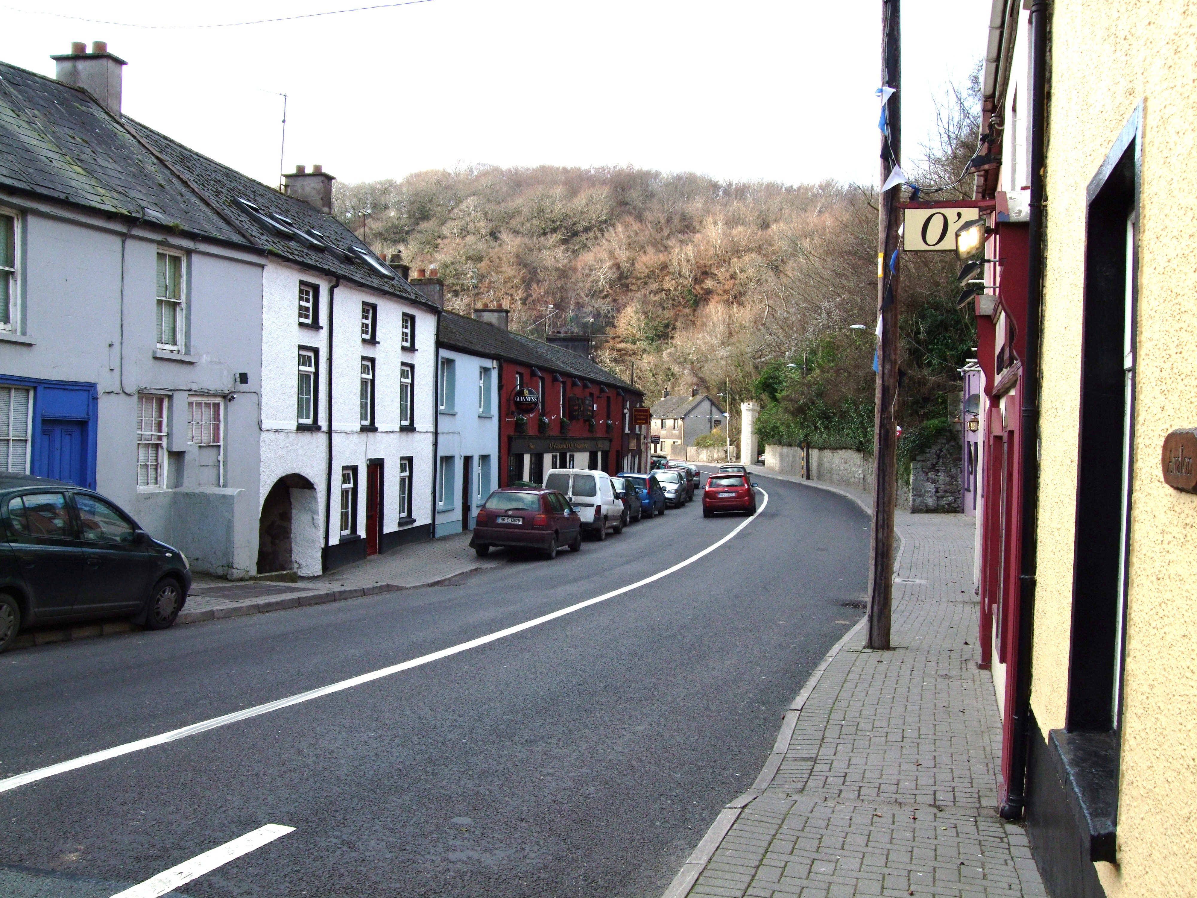 The main street, the R639, through Glanmire.